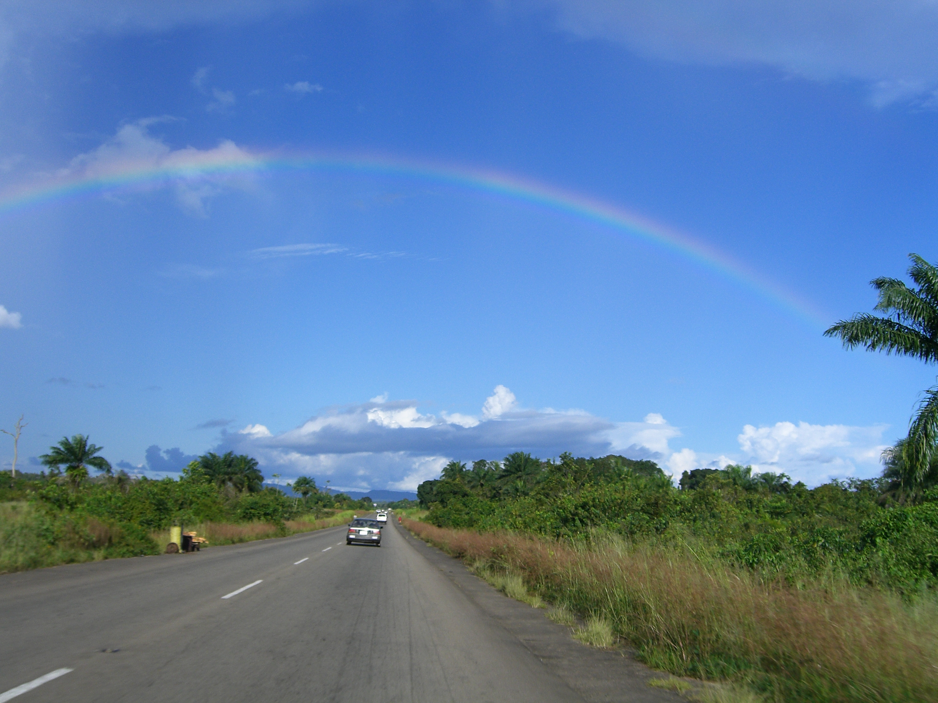 rainbow over Liberia, 2006